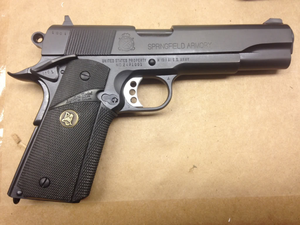 A MEU(SOC) M45 pistol